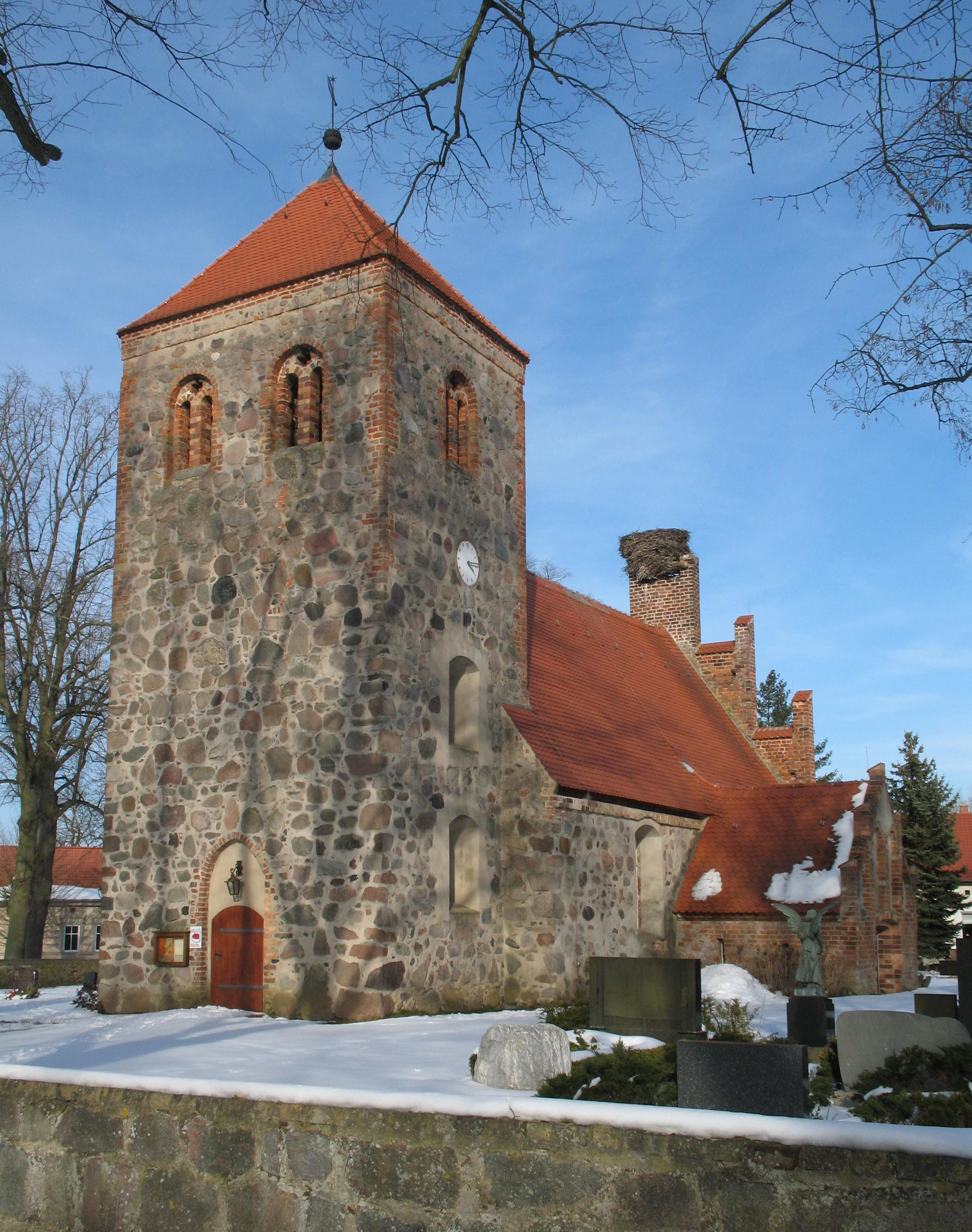 Church in Gransee-Buberow in Brandenburg, Germany